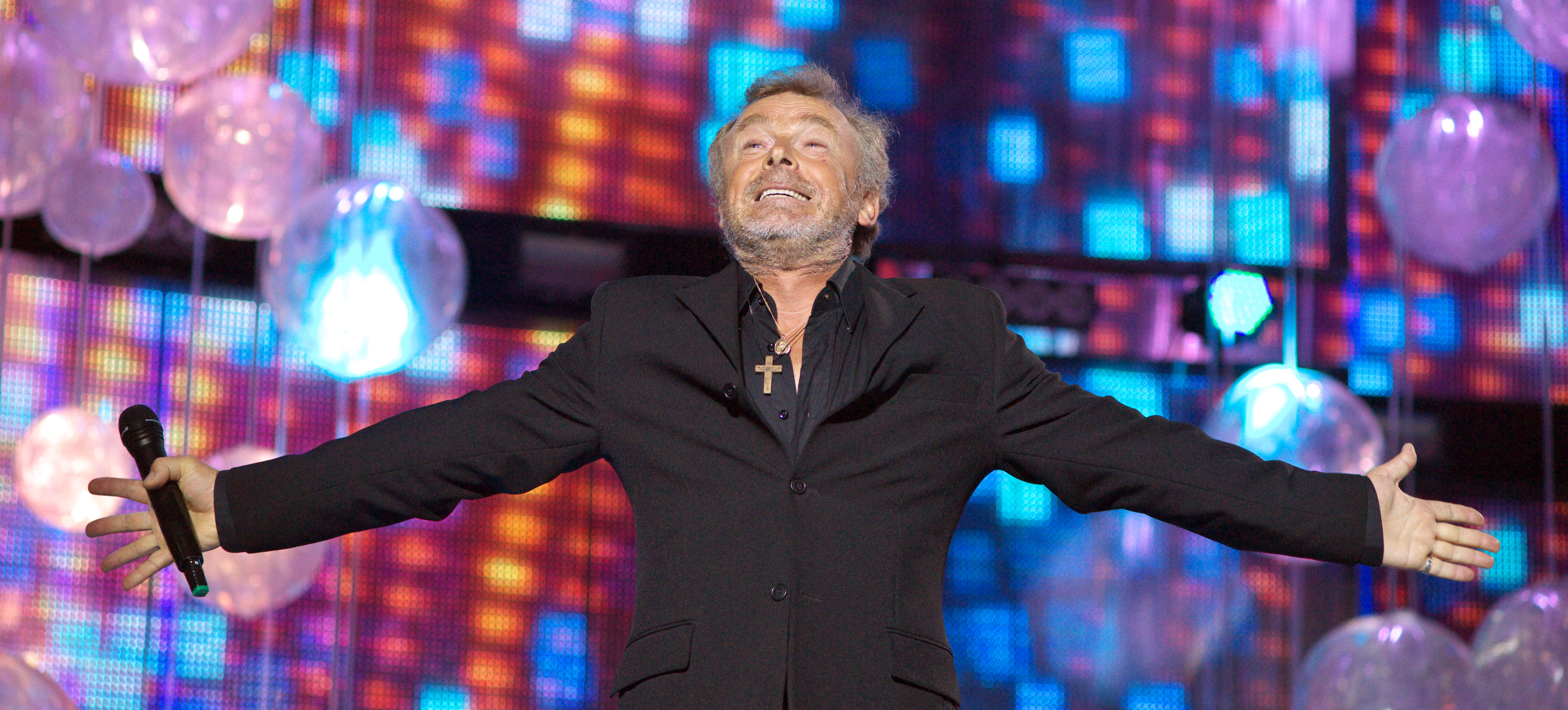 Nikolay V. Hnatiuk, Ukrainian singer